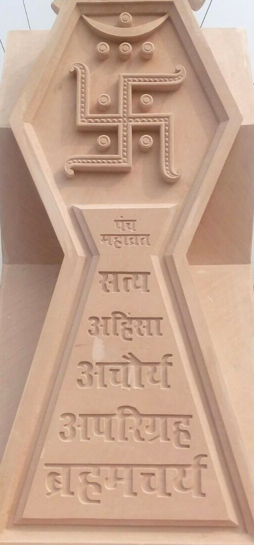 Jain emblem with "Five Vows"- Truth Non-injury Non-thieving Aparigraha (Non-possession) Brahmacharya